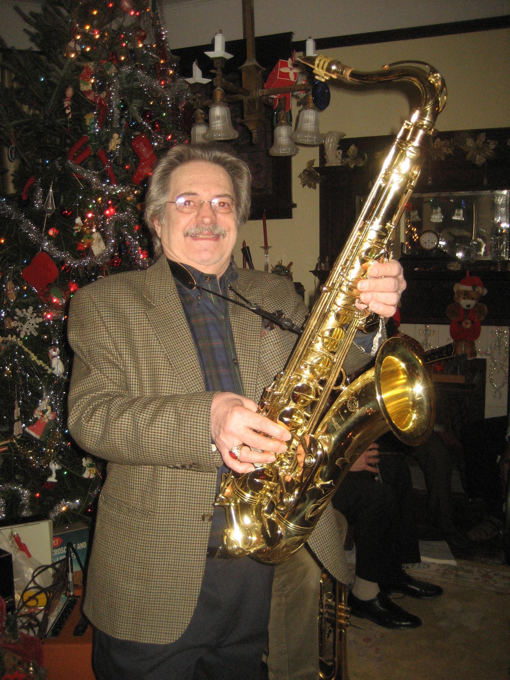 At New Years Day party. Saxophonist Jerry Jumonille.